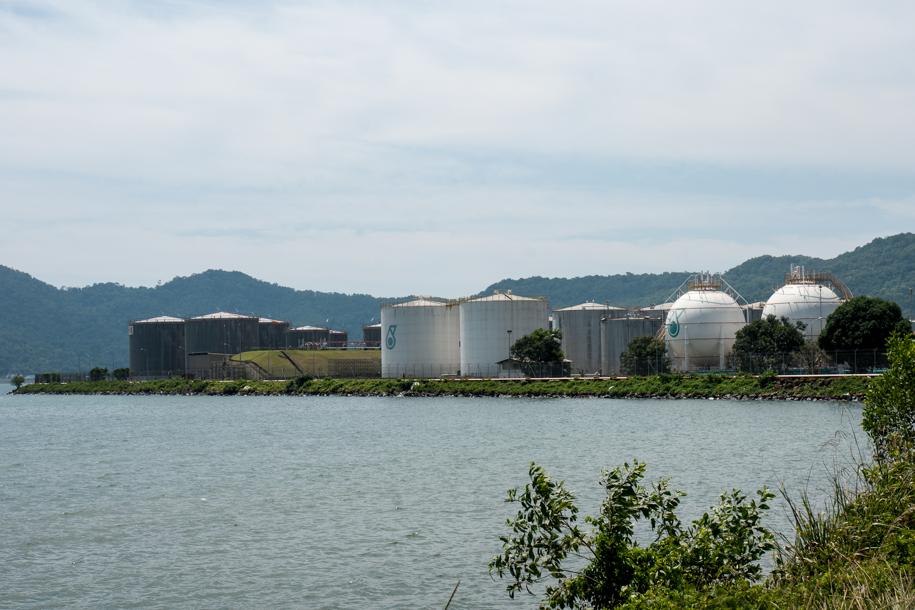 Kota Kinabalu, Sabah: Sapangar Bay Oil Terminal